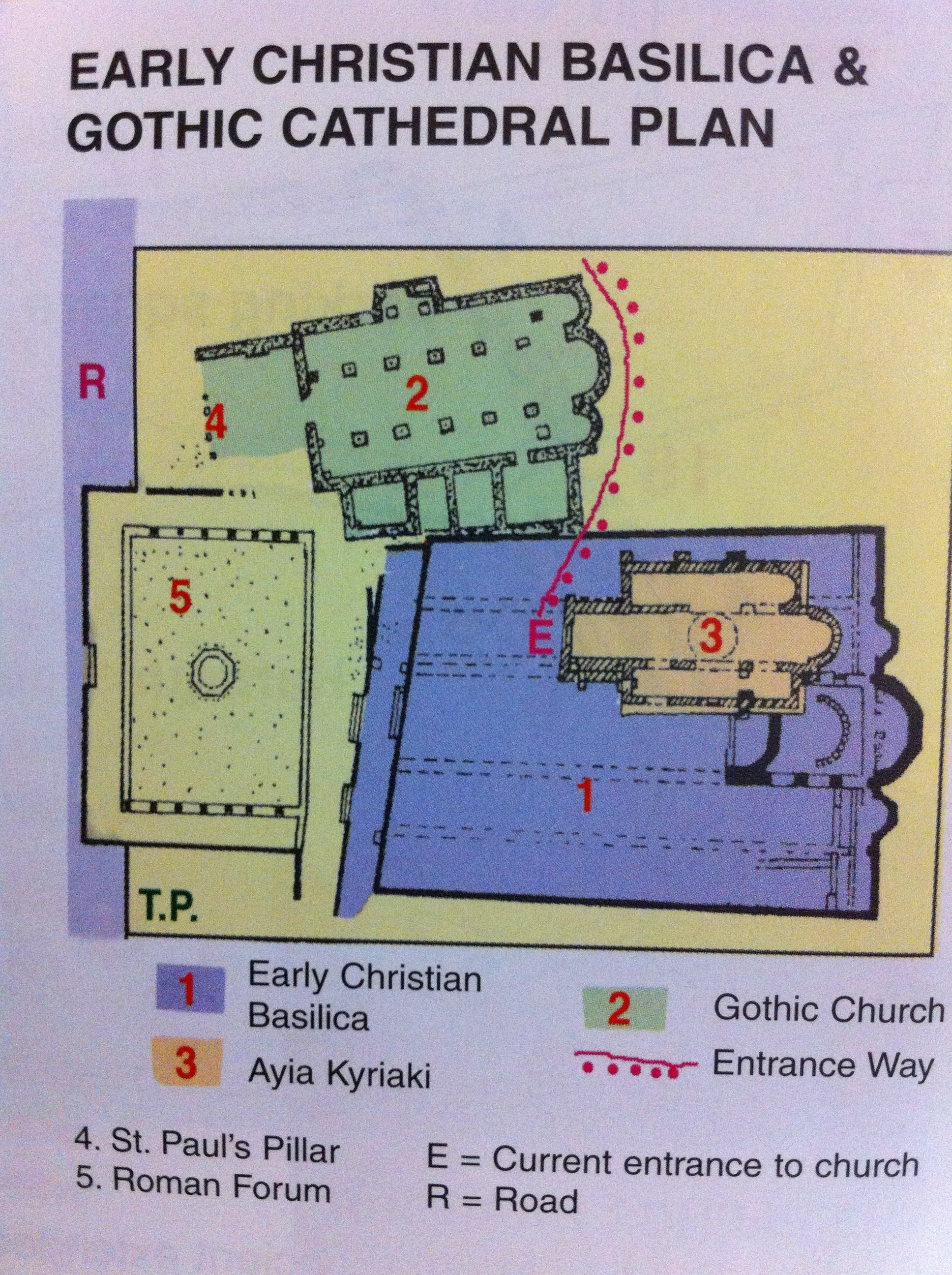 The plan of Chrysopolitissa (Paphos)